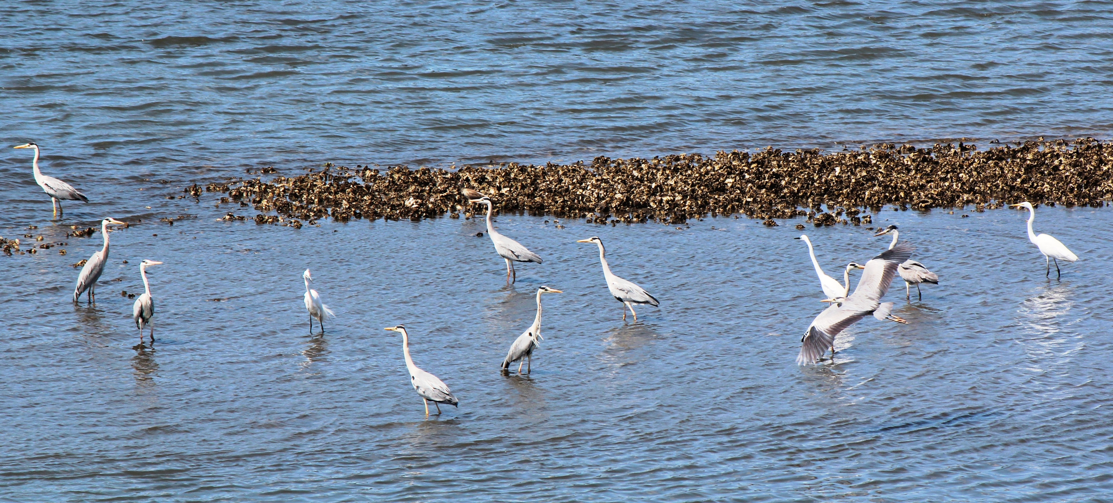 Ardea cinerea jouyi (Grey heron), flocks in Shiokawa Higata, Japan